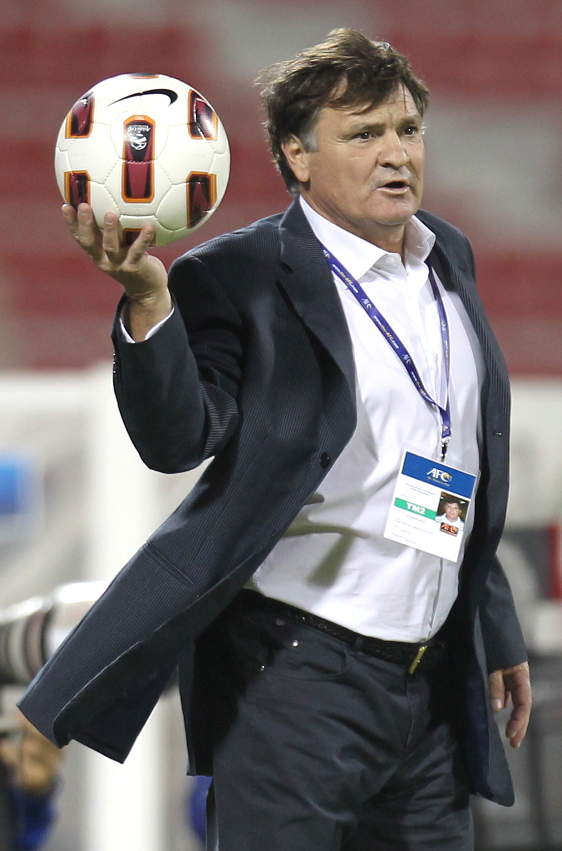 China's Spanish head coach Jose Antonio Camacho Alfaro reacts during a training session in Doha. Pic by Doha Stadium Plus